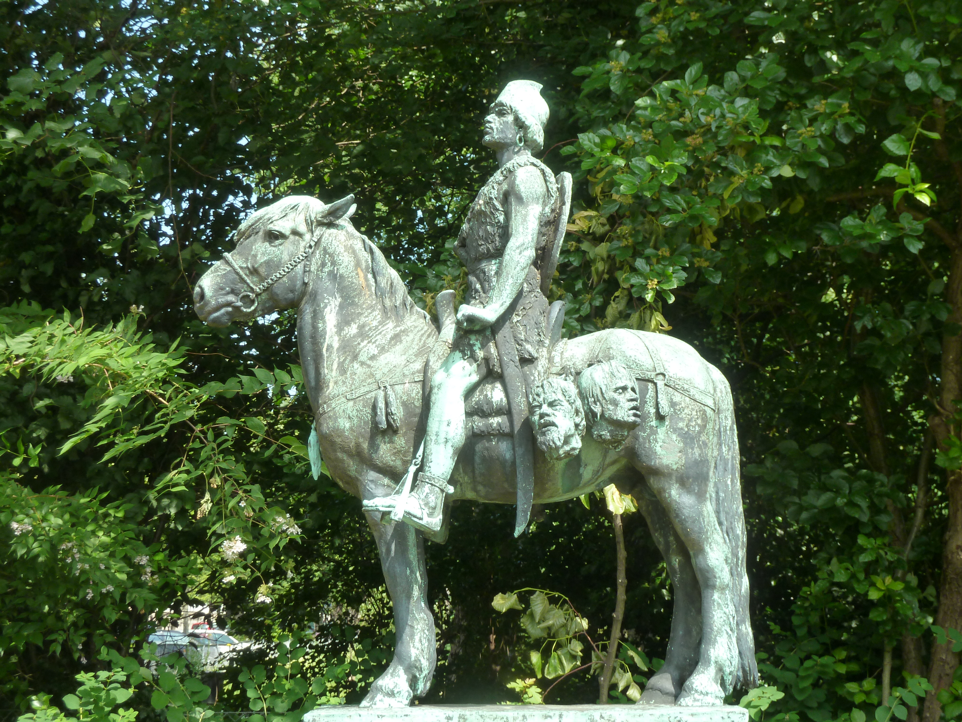 The equestrian statue outside the Hirschsprung Collection in Copenhagen, Denmark